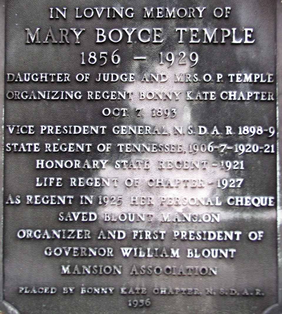 Daughters of the American Revolution plaque on the Temple obelisk at Old Gray Cemetery in Knoxville, Tennessee, USA, honoring philanthropist Mary Boyce Temple (1856–1929).